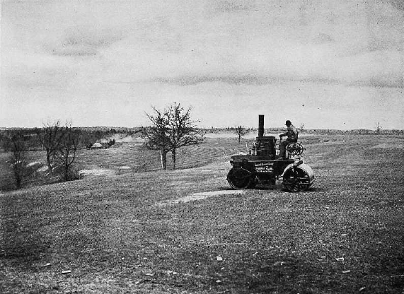 Golf Roller at Lambton Golf and Country Club, Toronto